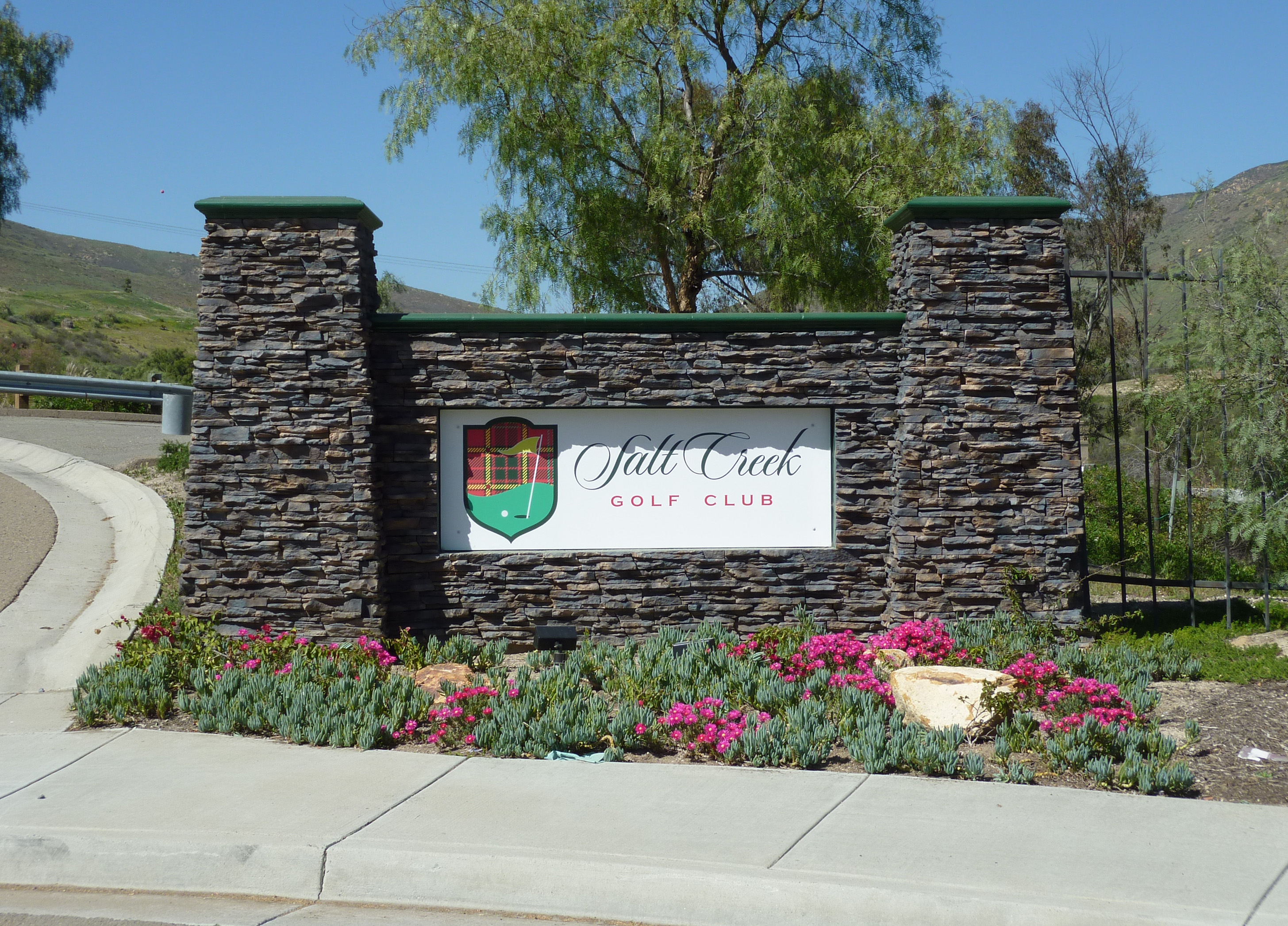 Sign of the Salt Creek Golf Club, Chula Vista, California